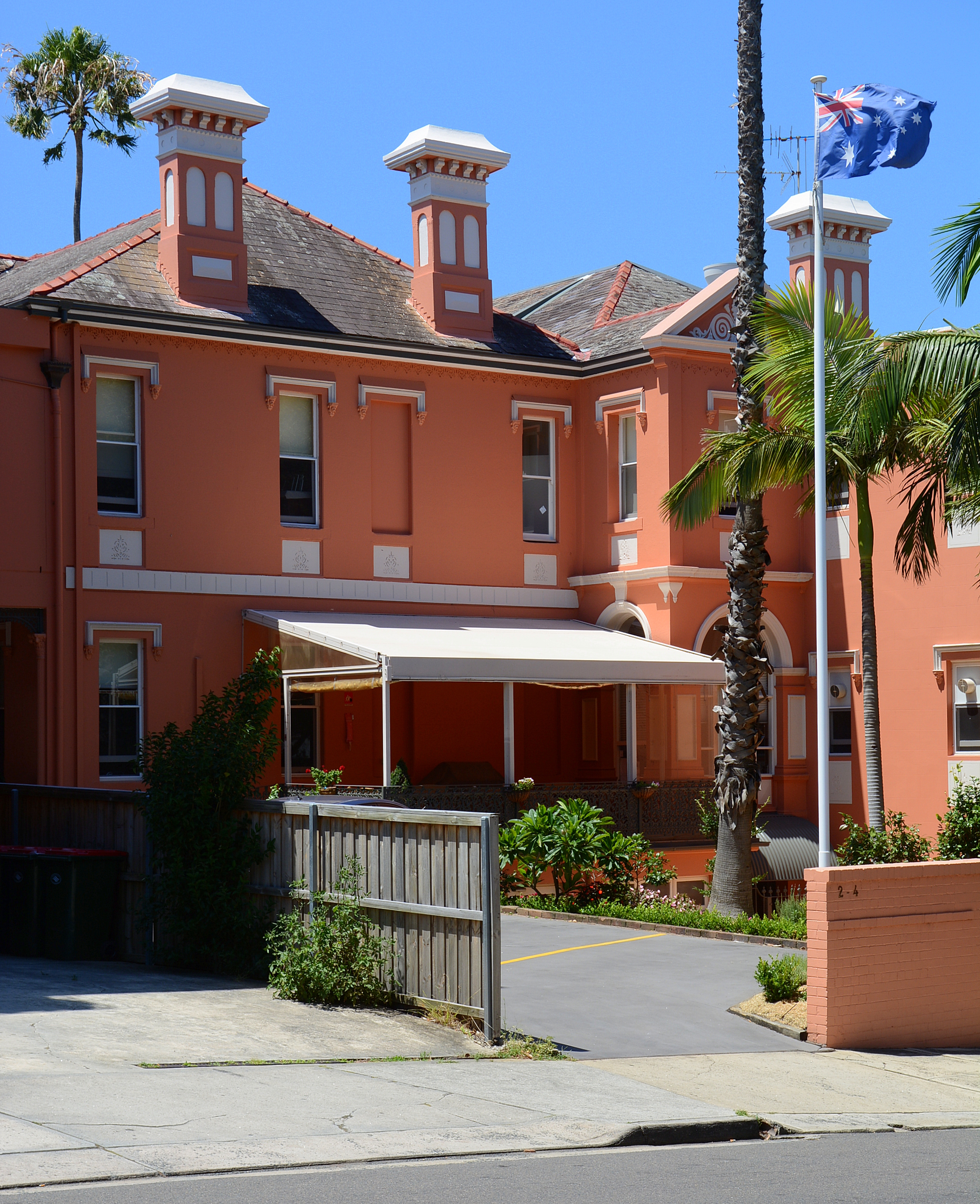 Milford House nursing home, Randwick, Sydney